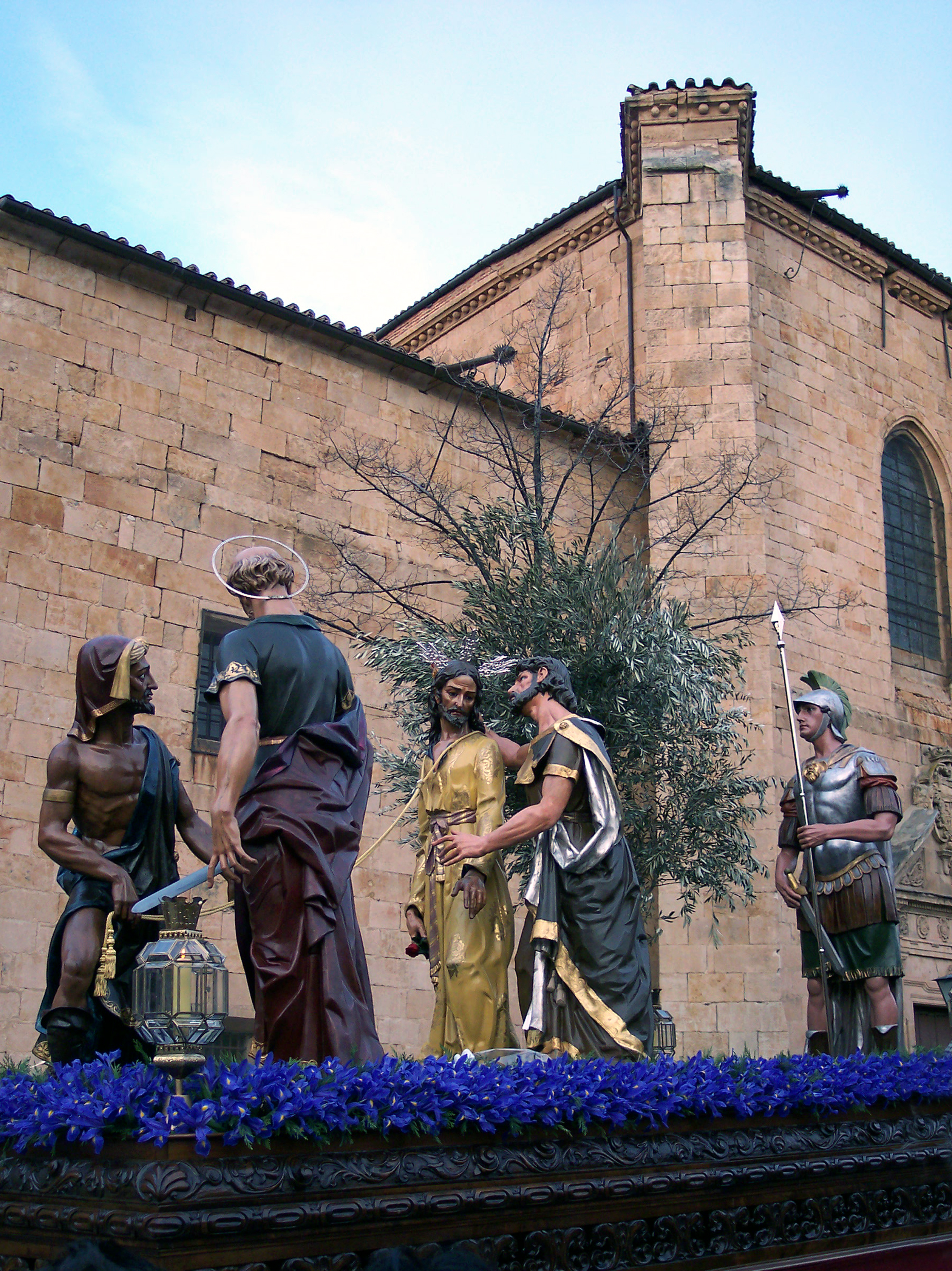 "Paso" of the Arrest of Christ in Salamanca, Spain